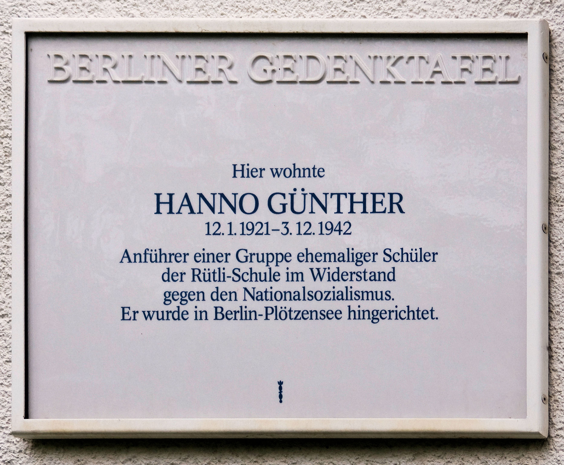 Berlin memorial plaque, Hanno Günther, Onkel-Bräsig-Straße 108, Berlin-Britz, Germany Koordinate:52°26′50″N 13°26′40″E / 52.44722°N 13.44444°E